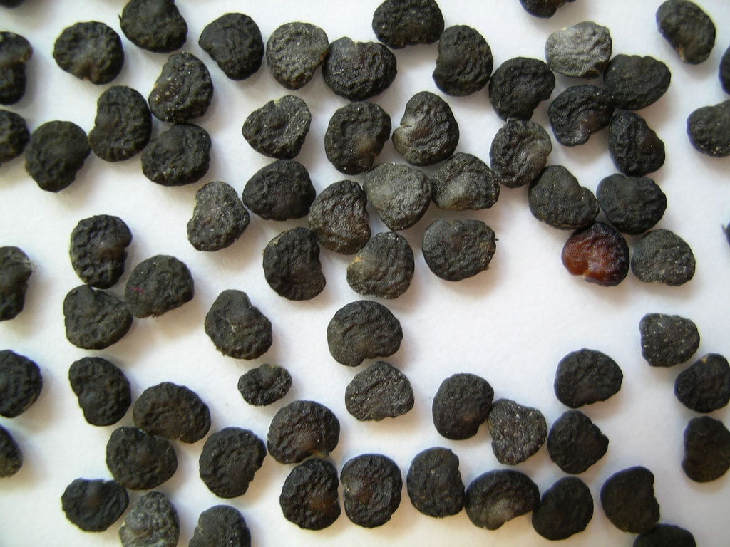 Datura seeds thorn-apple